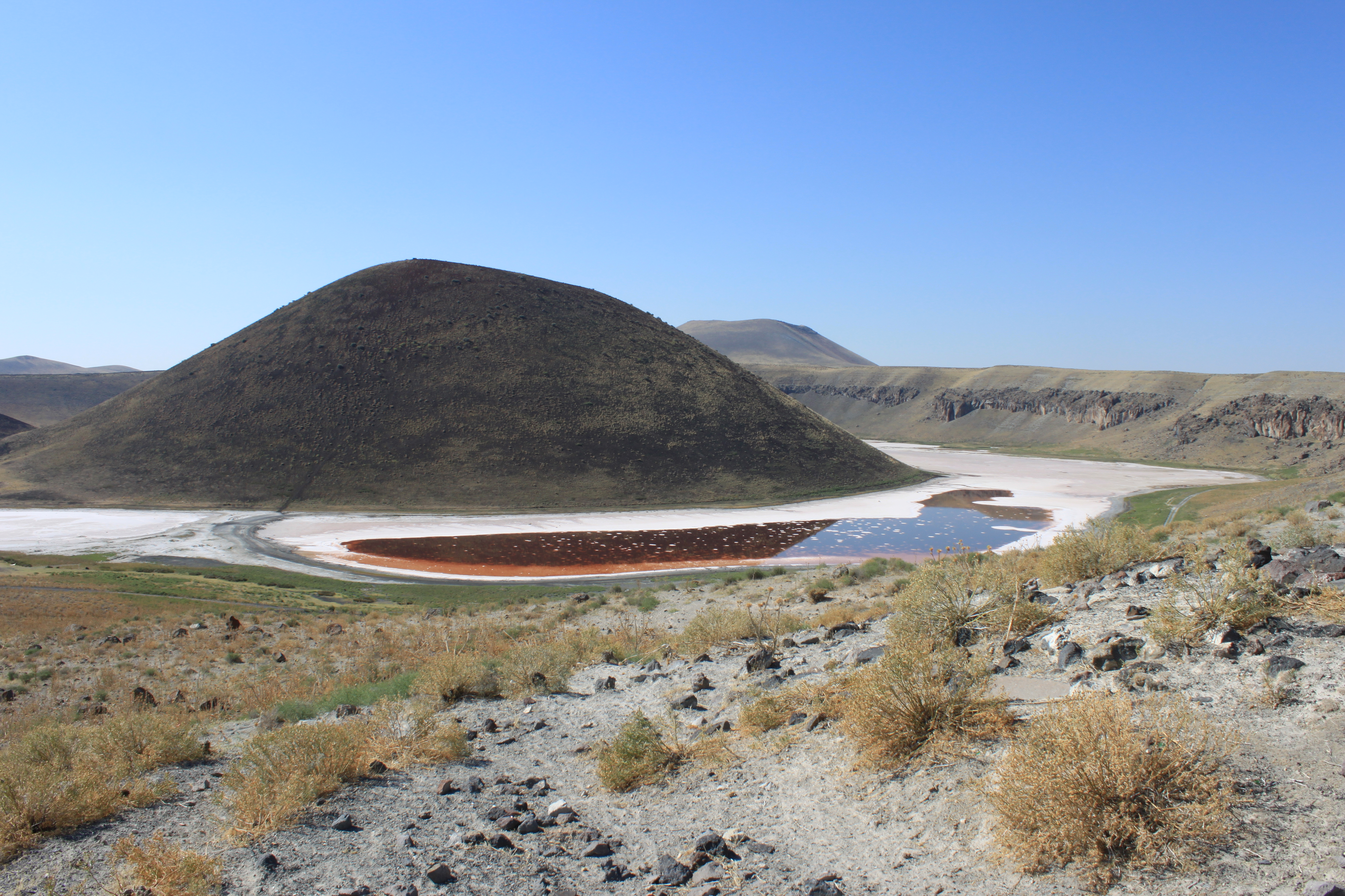 Meke Gölü ring-shaped crater, with a second cinder cone eruption site and Lake Meke (a crater lake) within it — in the Karapinar volcanic field, Konya Province, central Anatolia.